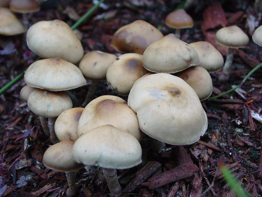 Psilocybe subaeruginascens in Oakland, California.